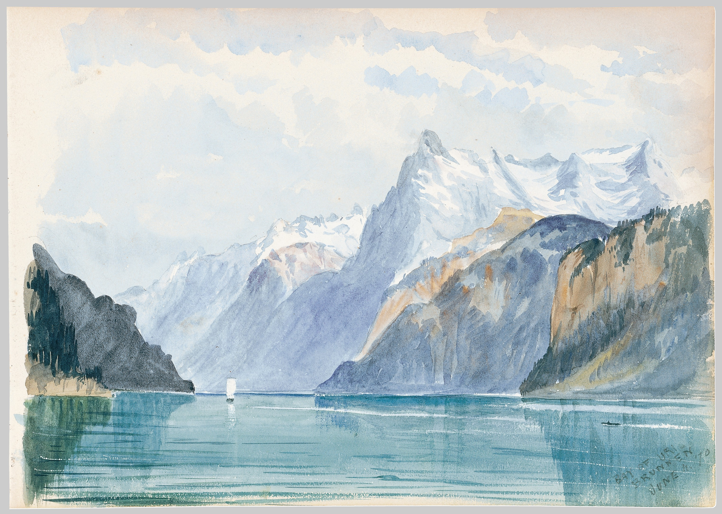 Watercolor; Drawings